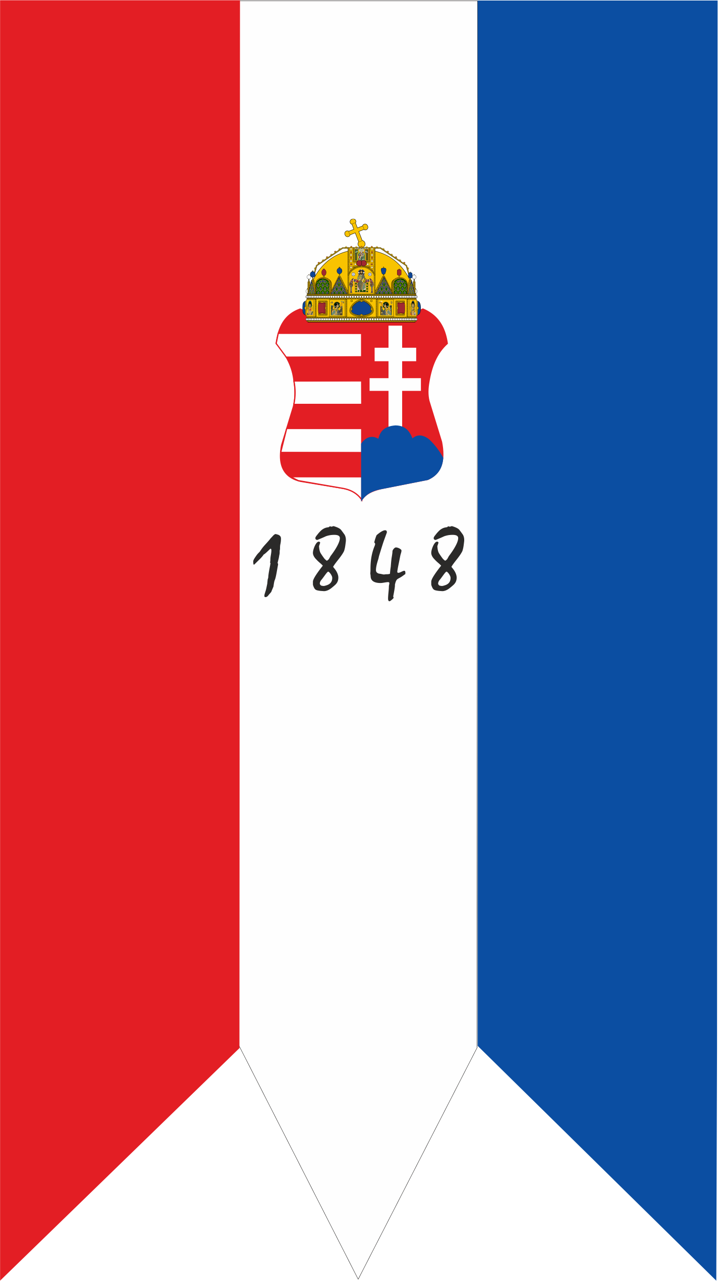 One of Slovak flags used for the first time during revolution in 1848 during crossing of Moravian-Slovak borders by Slovak voluntary army. It is obvious that the triple-hill isn't painted in traditional green colour used at Hungarian kingdom's flags, but it is painted in Slovak blue.